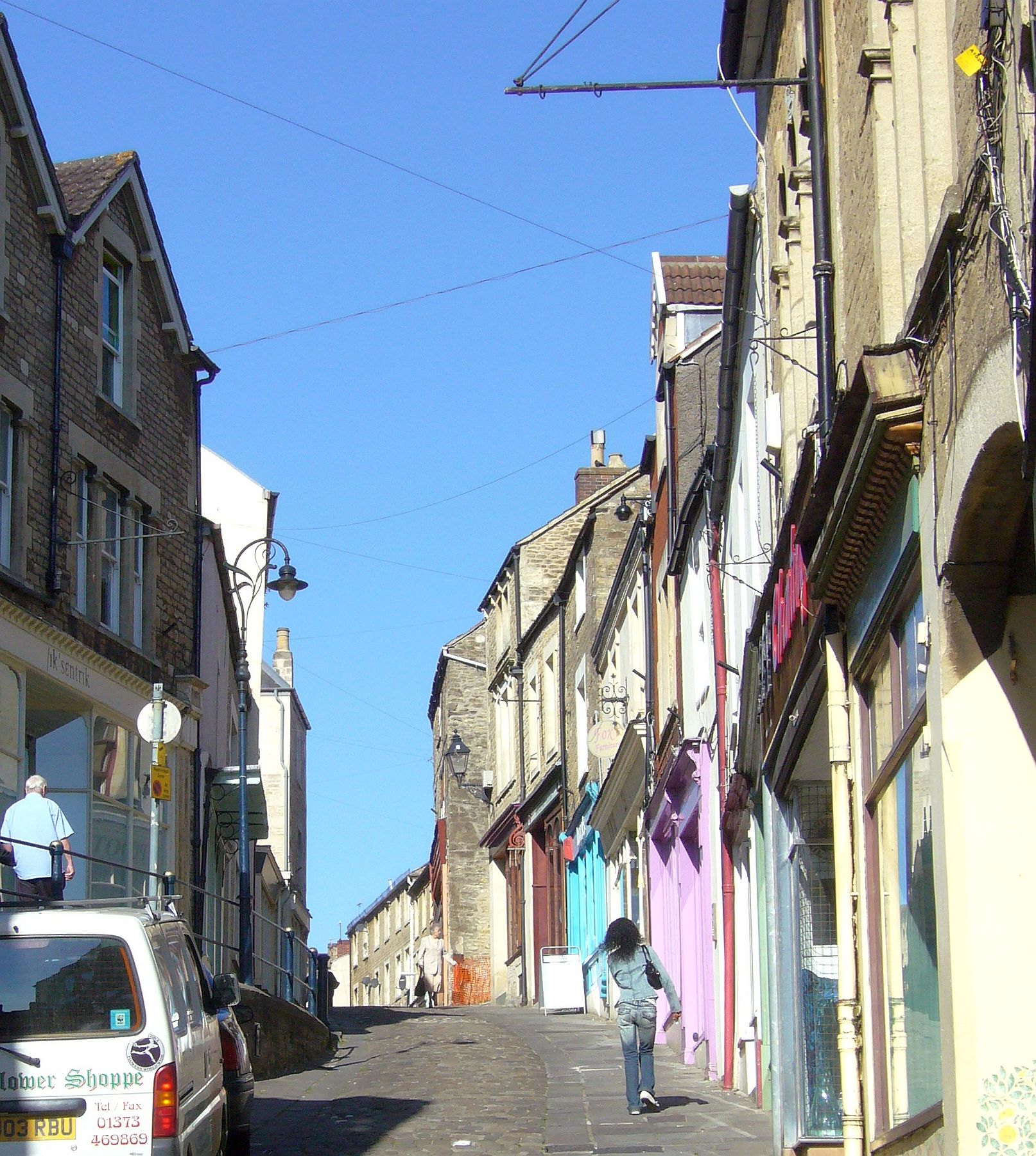 St Catherine's Hill in Frome. Photographed in September 2007. Required attribution is: Photo by Tom Oates.